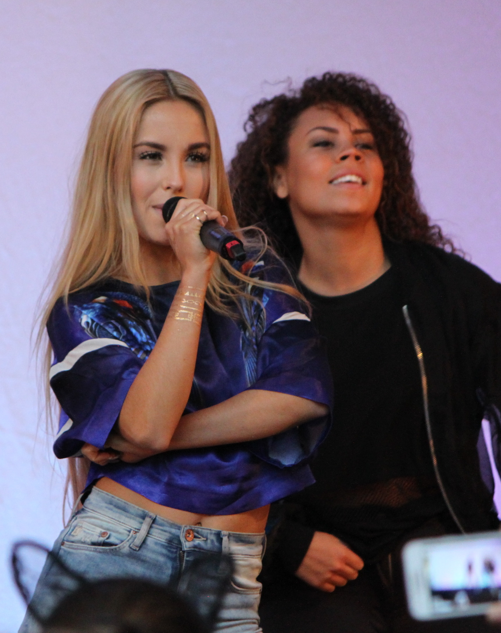 Isa Tengblad performing in Stinsen mall in 2015 the day after Melodifestivalen final.